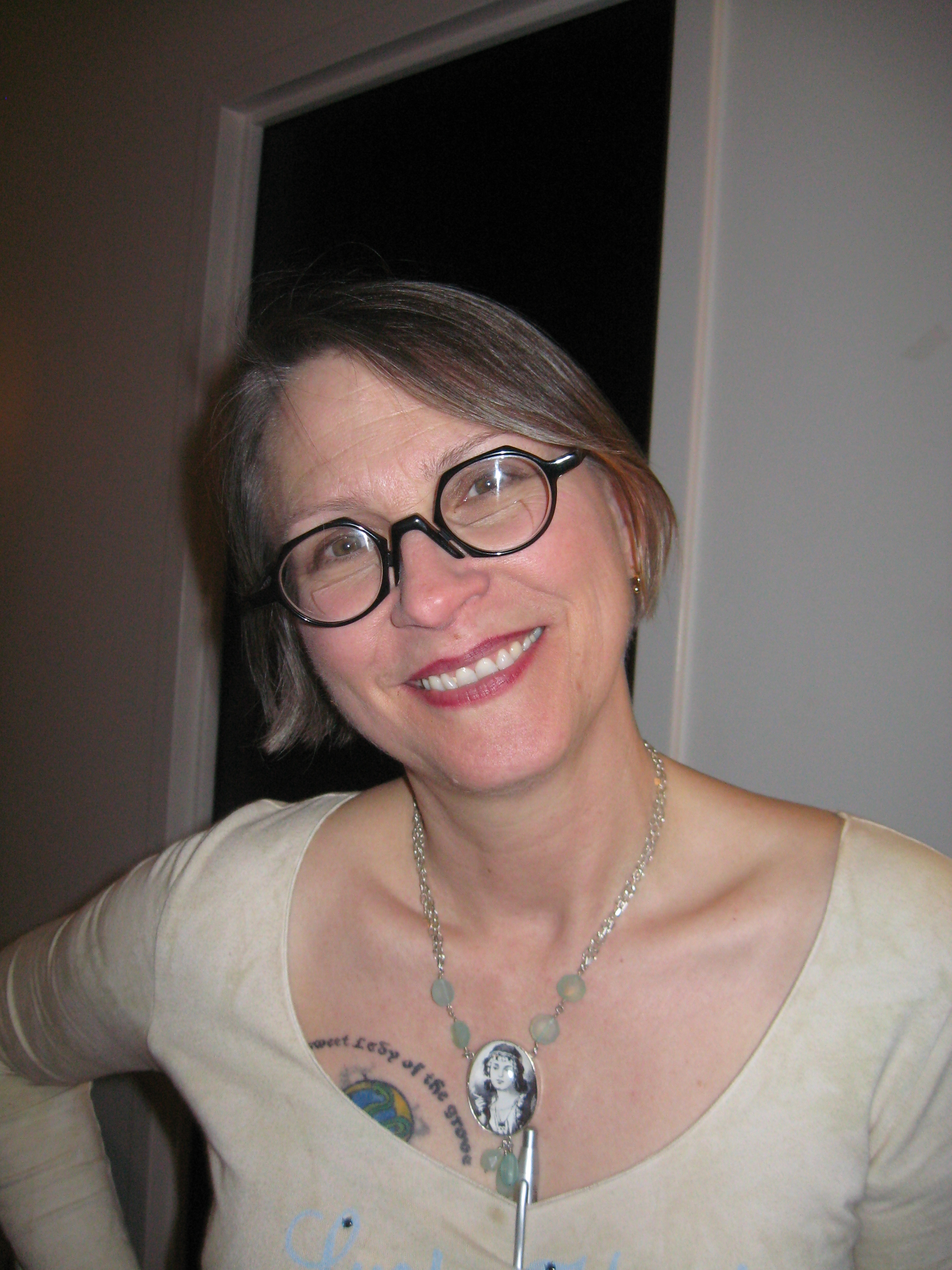 Carol Queen ( and ) after speaking at a Woodhull Freedom Foundation Event ( in January, 2010, where she talked about her time as a Ph. D. student working in a peep show. NOTE: Woodhull Freedom Foundation subsequently changed name to Woodhull Sexual Freedom Alliance.